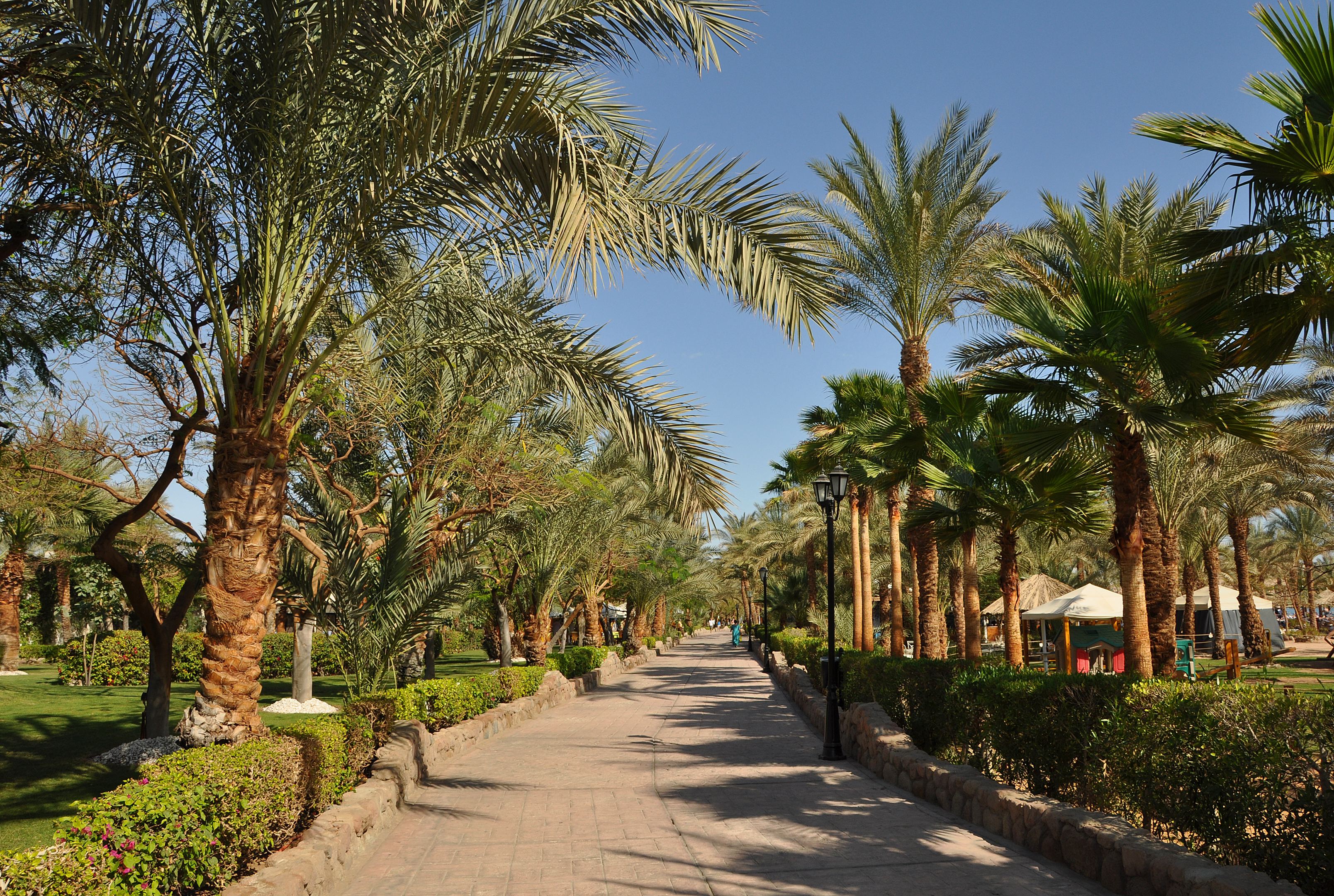 Sharm el-Sheikh (Egypt): Naama Bay Promenade